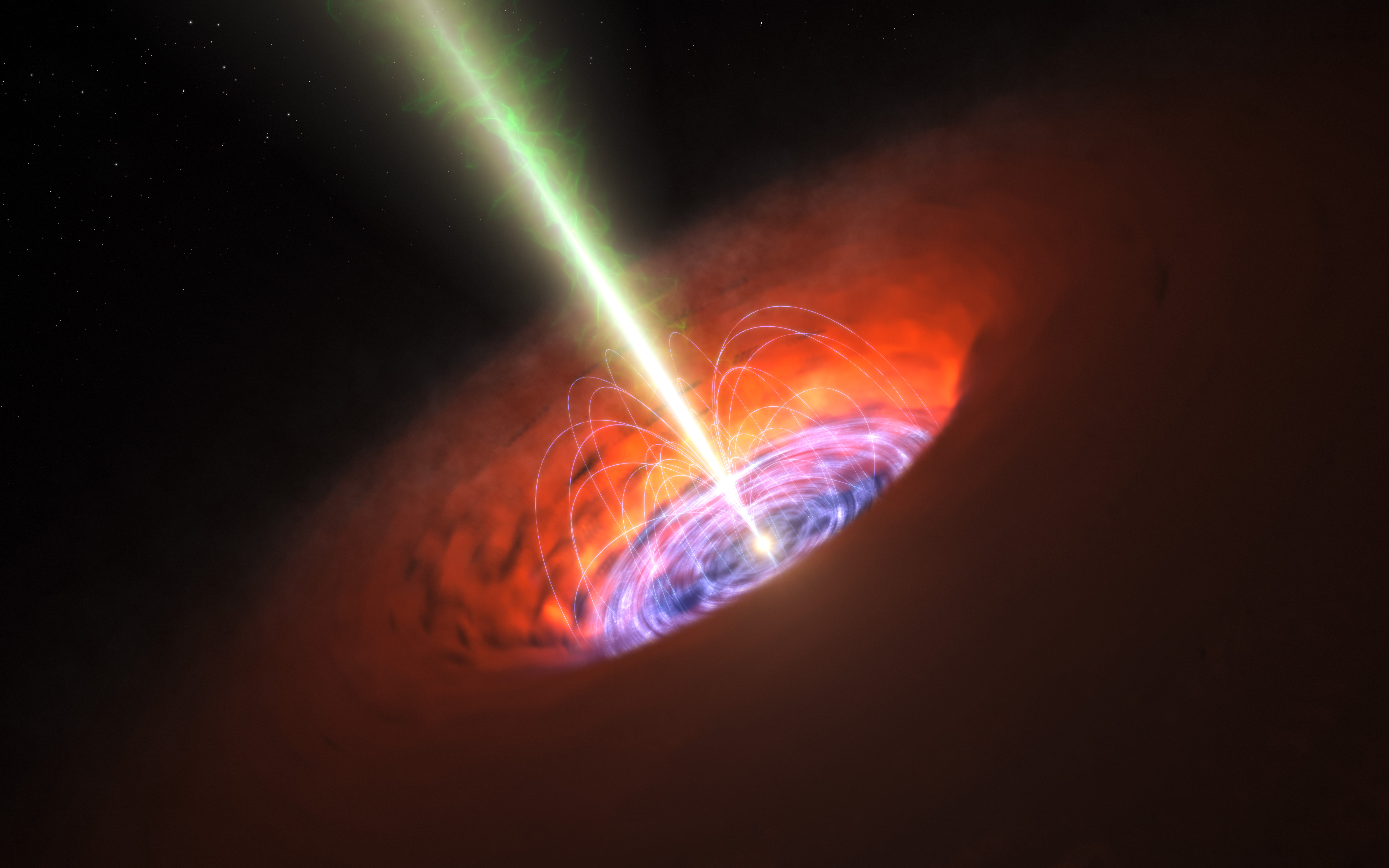 This artist’s impression shows the surroundings of a supermassive black hole, typical of that found at the heart of many galaxies. The black hole itself is surrounded by a brilliant accretion disc of very hot, infalling material and, further out, a dusty torus. There are also often high-speed jets of material ejected at the black hole’s poles that can extend huge distances into space. Observations with ALMA have detected a very strong magnetic field close to the black hole at the base of the jets and this is probably involved in jet production and collimation.